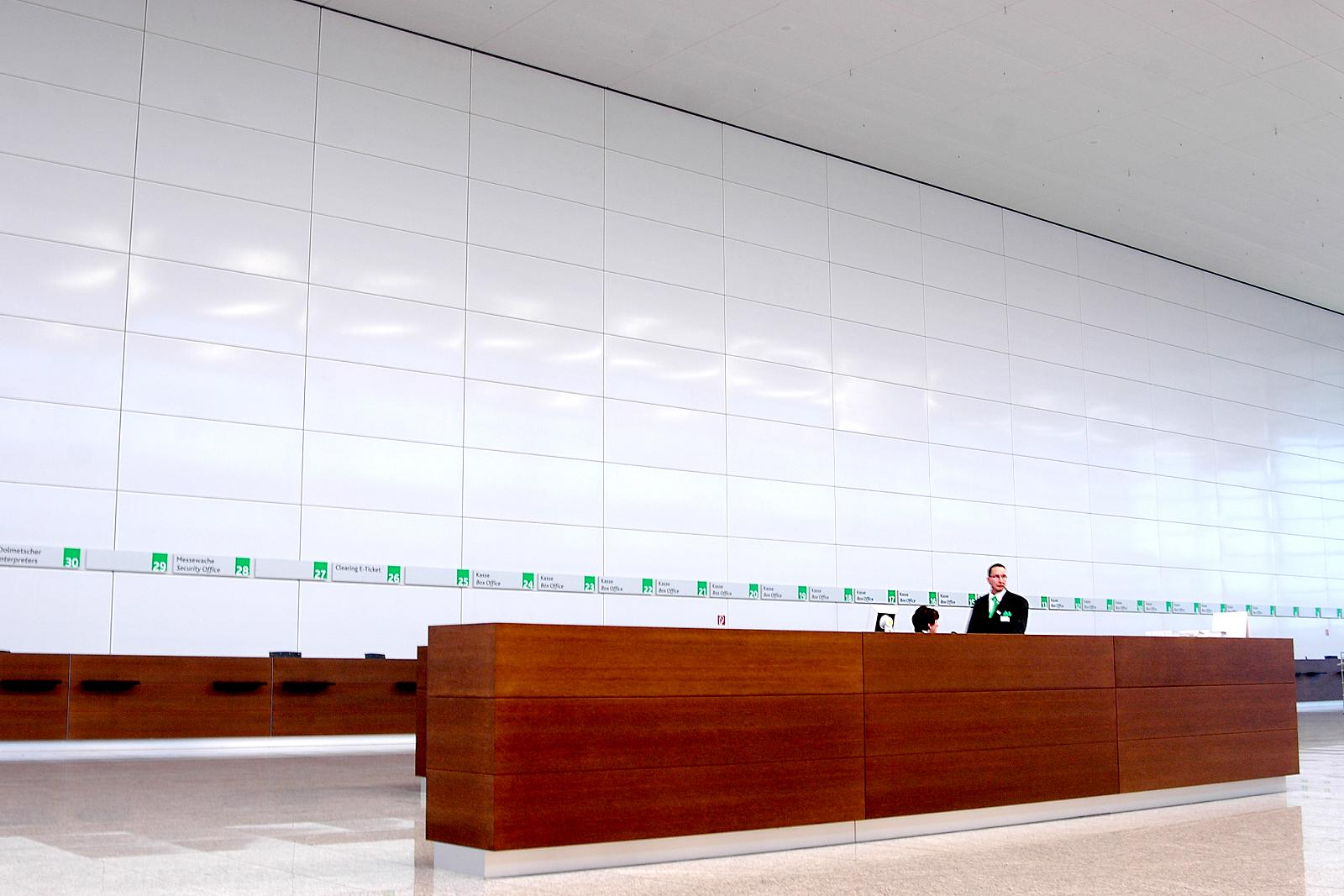 Cologne Fair Trade - South Entrance Hall Köln Messe - Eingang Süd Can't remember settings, I guess I had ISO 800, 1/50 speed and something like +1 overexposure to get the high-key effect. Slight post production, too.